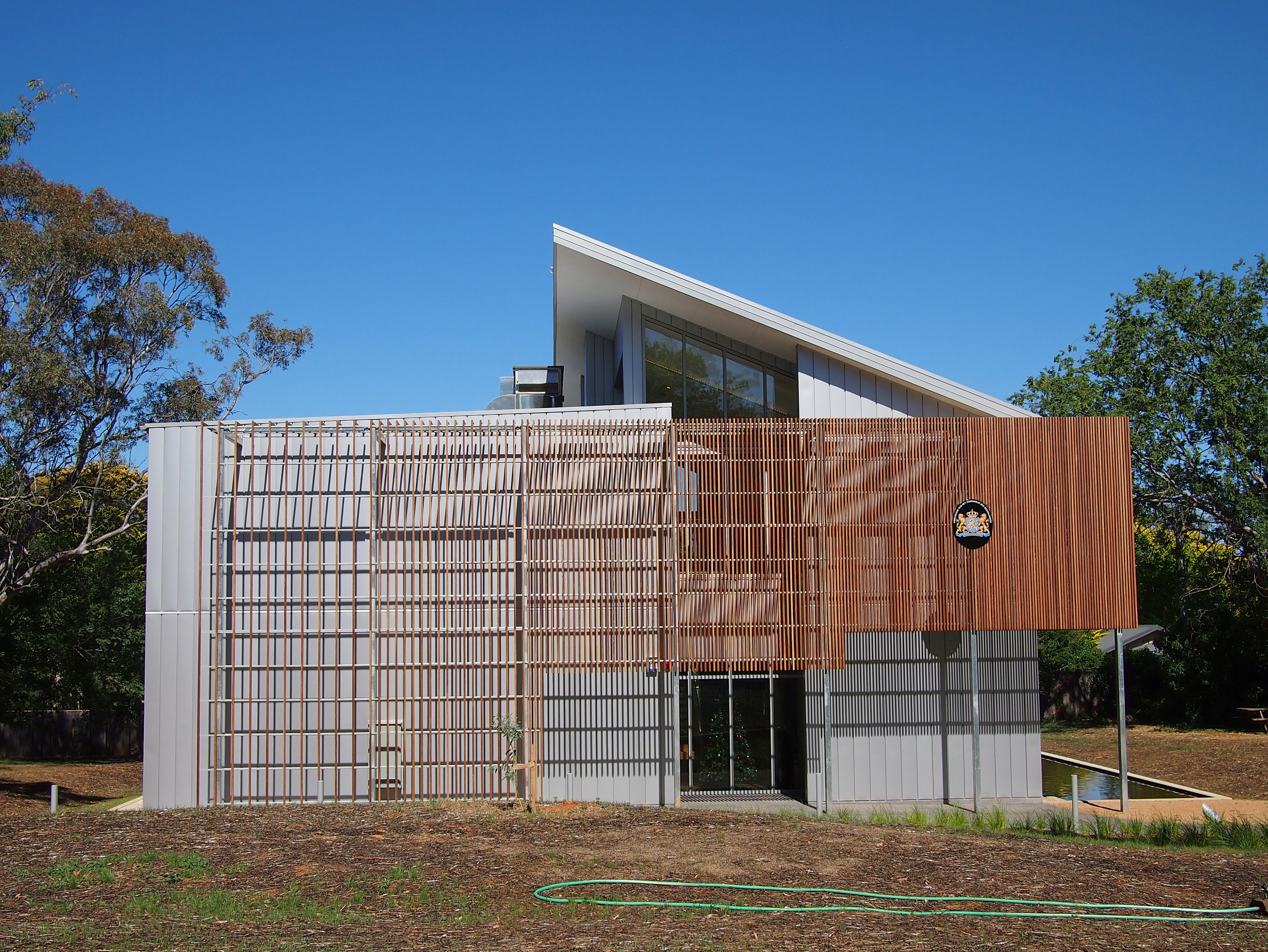 The east face of, and entrance to, the Dutch embassy in Canberra